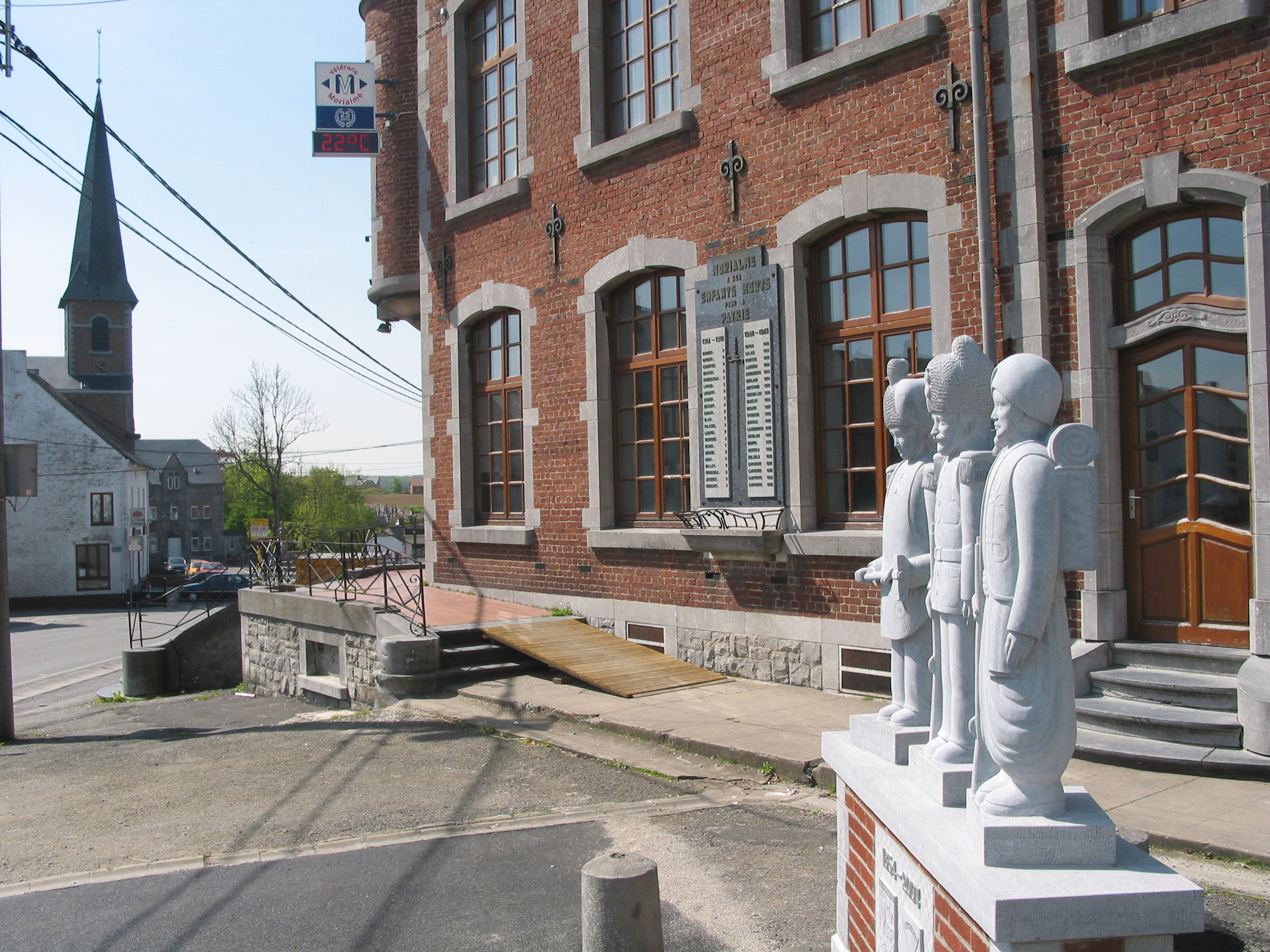 Morialmé (Belgium), «Marcheurs (walkers) » monument .